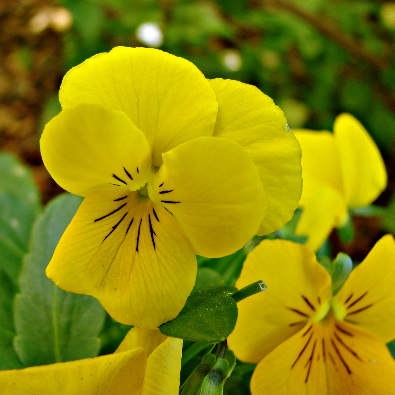 A yellow Viola tricolor